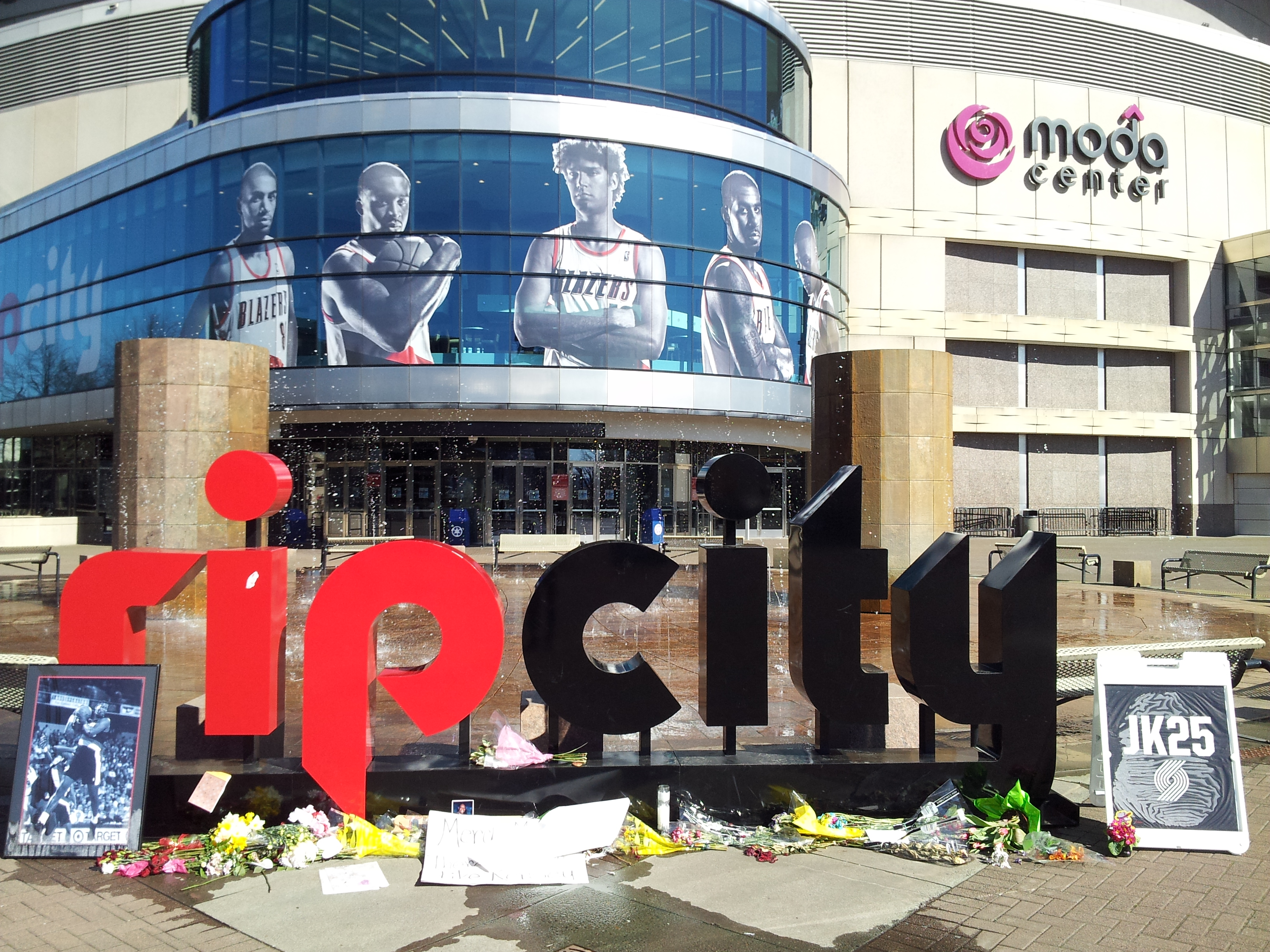 Memorial to Jerome Kersey in front of the Moda Center in Portland, Oregon (2015)